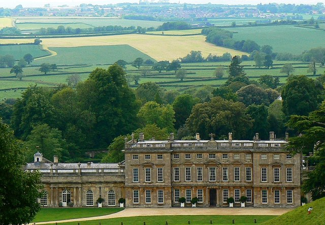 Dyrham Park, South Gloucestershire- east front A foreshortened view of the imposing east elevation of the historic house, now owned by the National Trust.